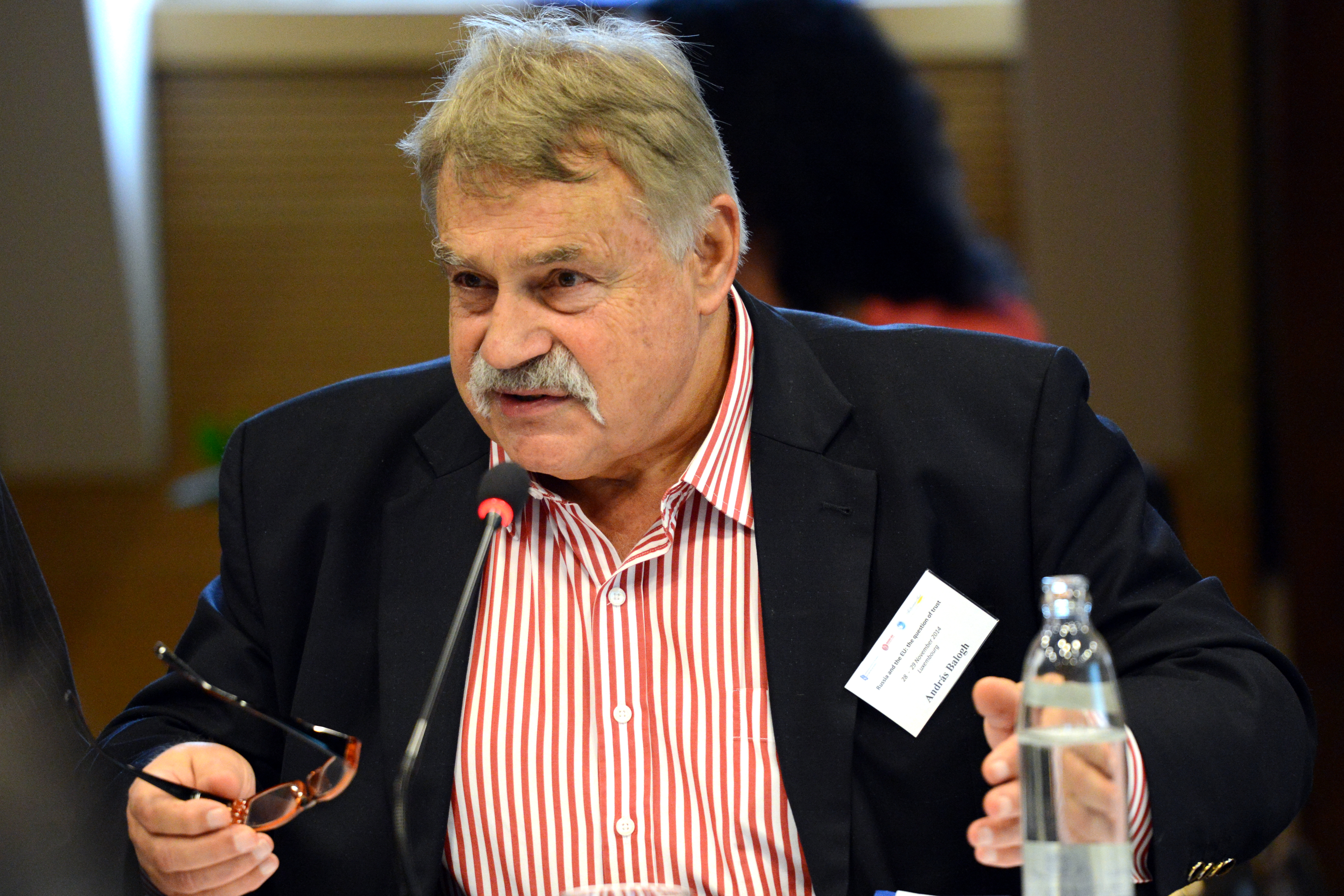 The Luxembourg Institute for European and International Studies, together with the Russkiy Mir Foundation, the Russian Centre of Science and Culture in Luxembourg and the Alexander Gorchakov Public Diplomacy Fund organized the conference Russia and the EU: the question of trust, Luxembourg, 28 - 29 November 2014. András Balogh, Professor, Head of the Modern World History Department, Eötvös Lóránd University; Former Ambassador, Hungary.